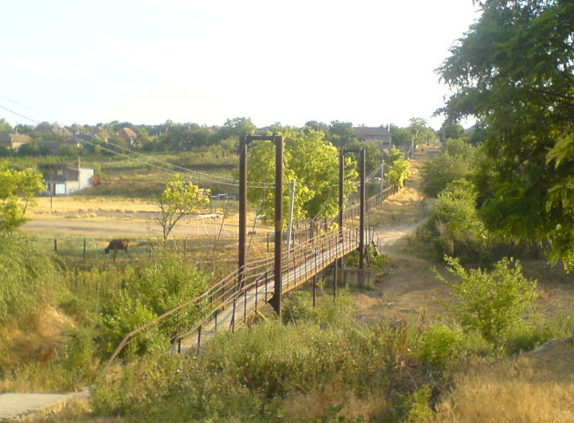 A bridge across central channel in Kotlovynavillage; Reniyskyi Raion, Odessa Oblast, Ukraine